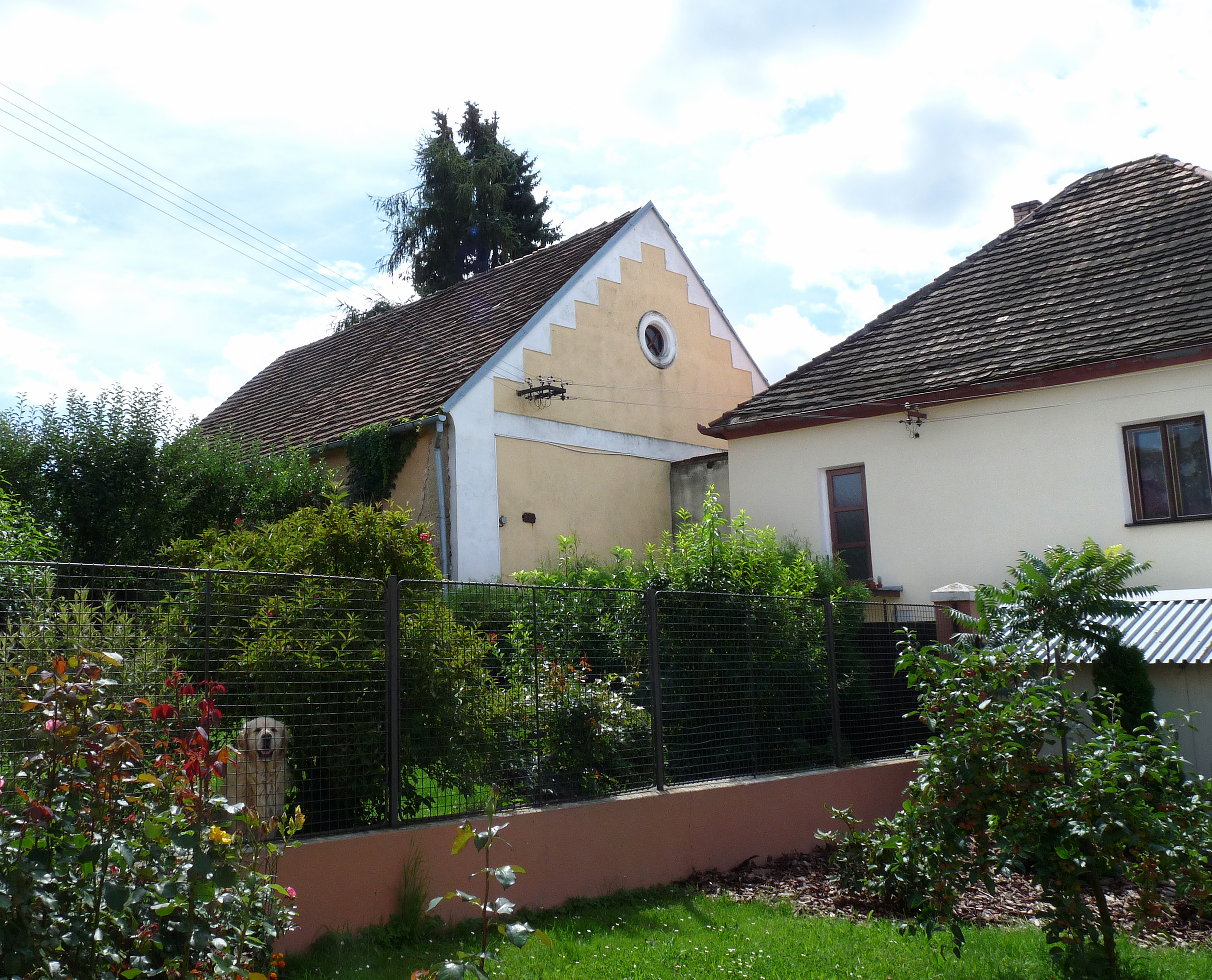 Former synagogue in the village of Tučapy, Tábor District, Czech Republic, rebuilt to a gym. The house on the right is the former Jewish school.